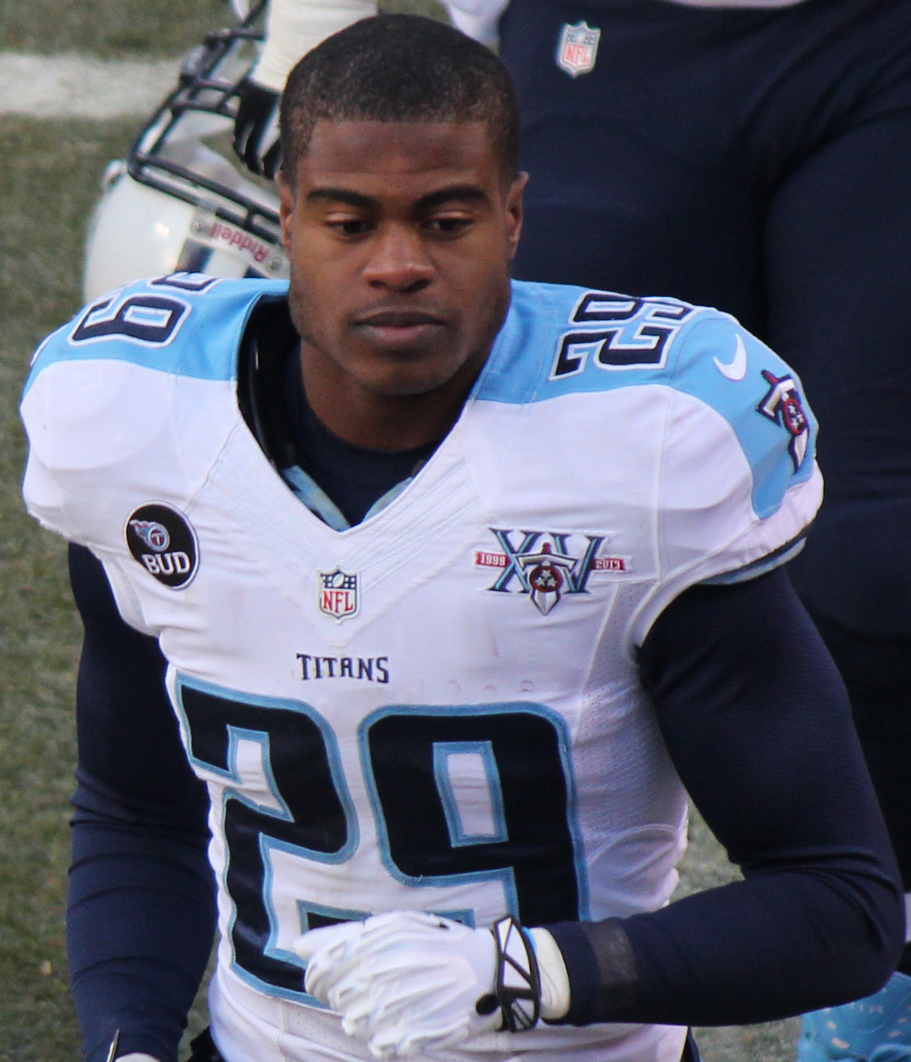 Blidi Wreh-Wilson, a player on the National Football League.